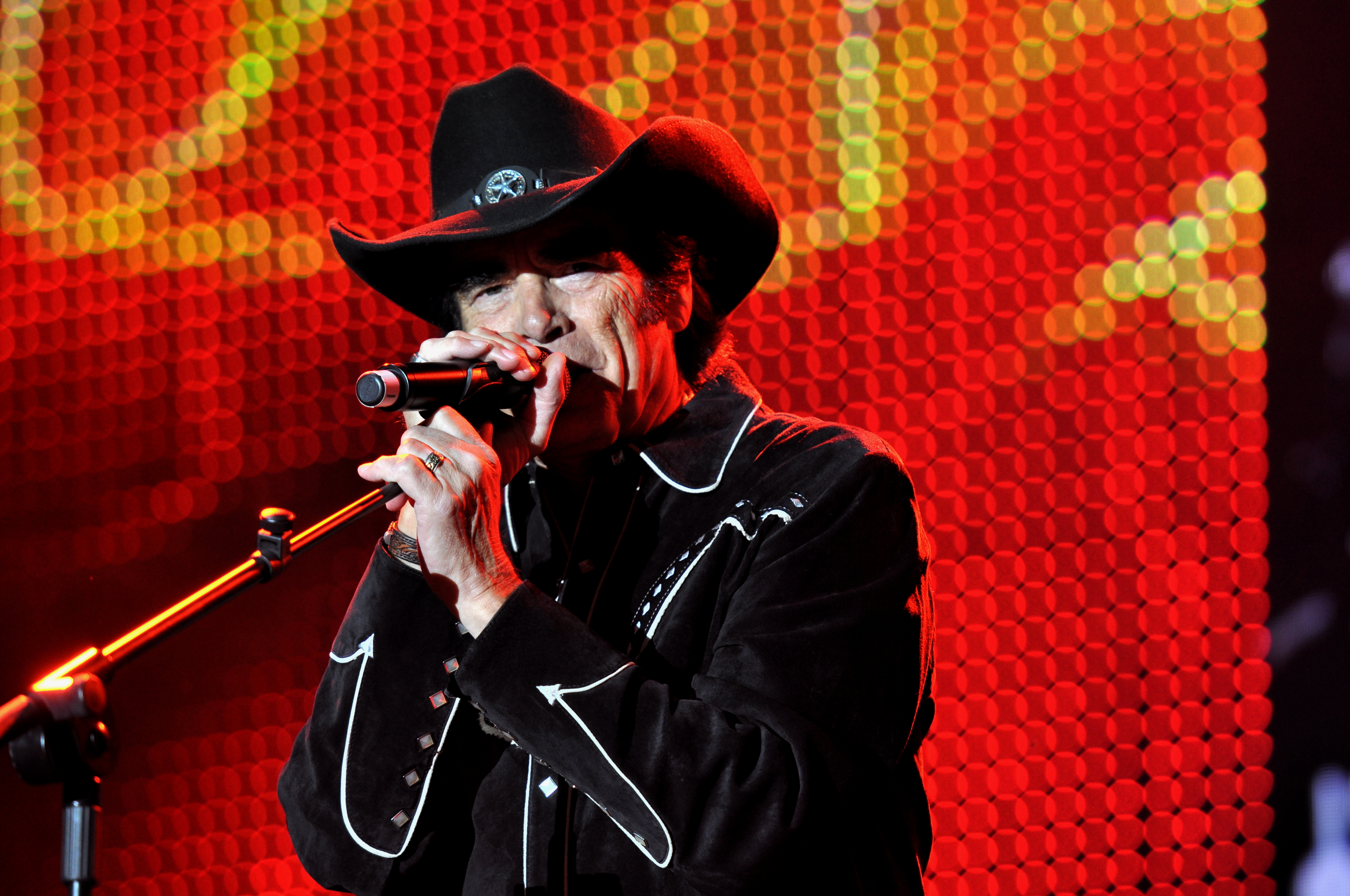 German country singer Tom Astor at the International Truck Grand Prix Country Festival 2013, Nürburgring, Germany